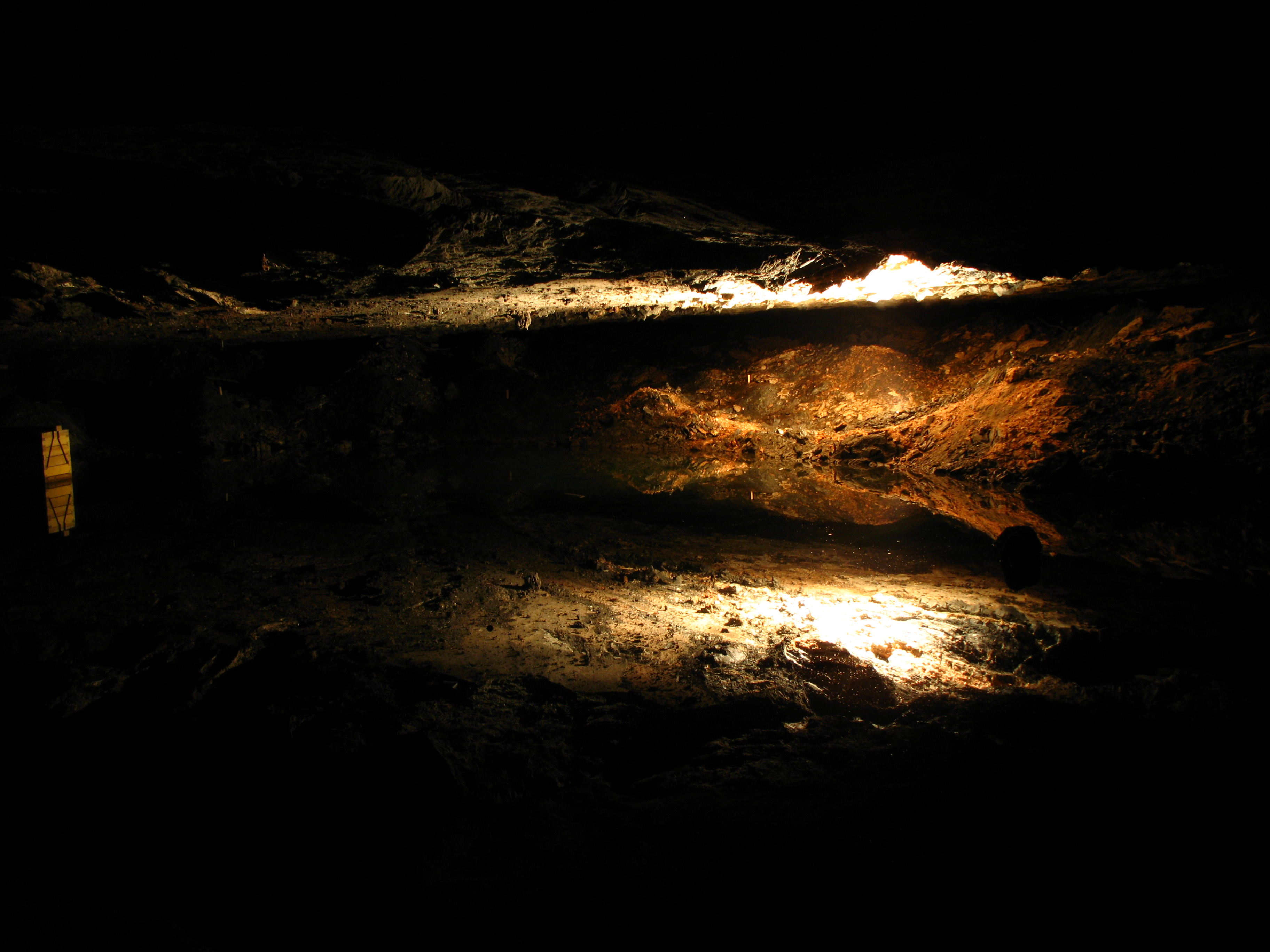 Lake in the Salt Mine, Hallstatt, Austria